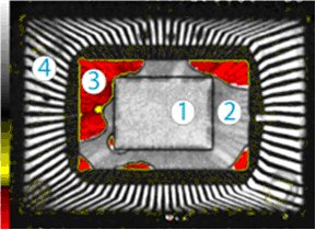 C-Sam Generated Image